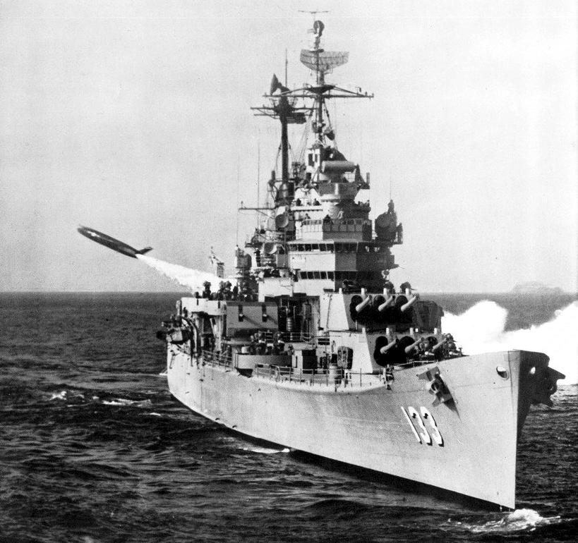 A U.S. Navy heavy cruiser USS Toledo (CA-133) launching an SSM-N-8 Regulus cruise missile. The mainmast aft carries the SPQ-2 radar used to track the Regulus missile.